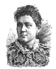 Mariana Williamson (Coronel) de Smith